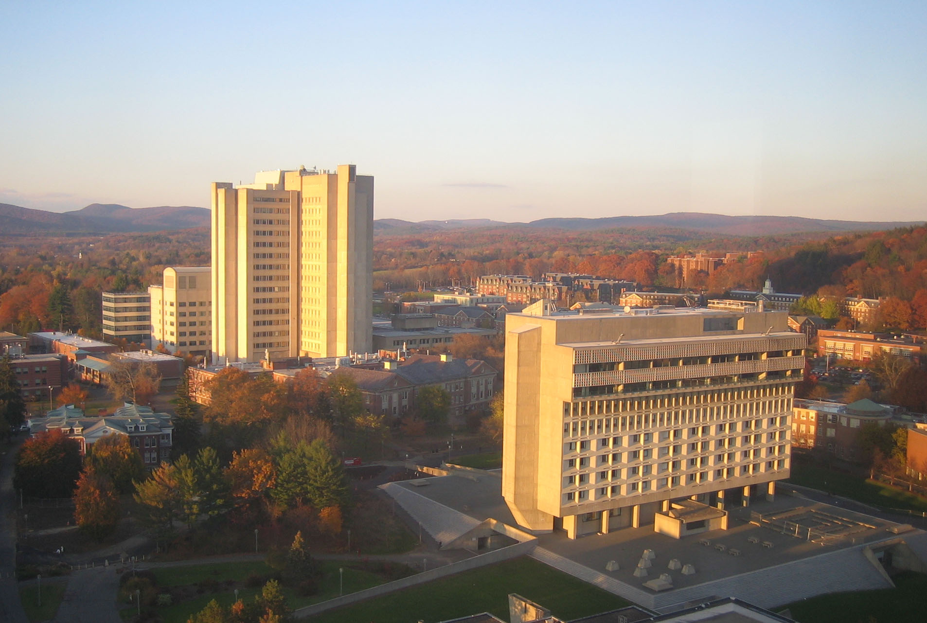 UMass at Amherst, picture taken from the W.E.B. Dubois Library [ known to 'UMMIES' of the 1970's - such as myself - as the Awful Waffle. It looks as though it just popped out of the toaster. ]